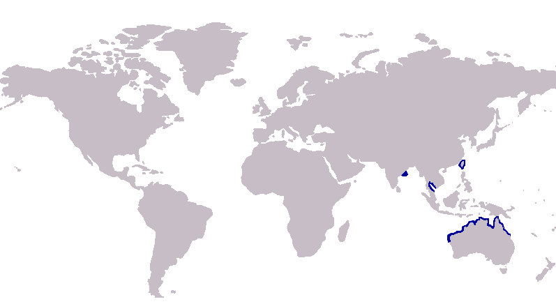 Distribution of Bay whiting, Sillago ingenuua using map based on GDFL image